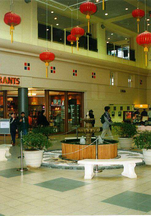 The lobby of Oriental City, around 1997